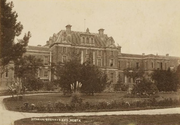 Botanical Gardens and General Post Office (now Stirling Gardens and the Old Treasury Buildings), Perth, Western Australia